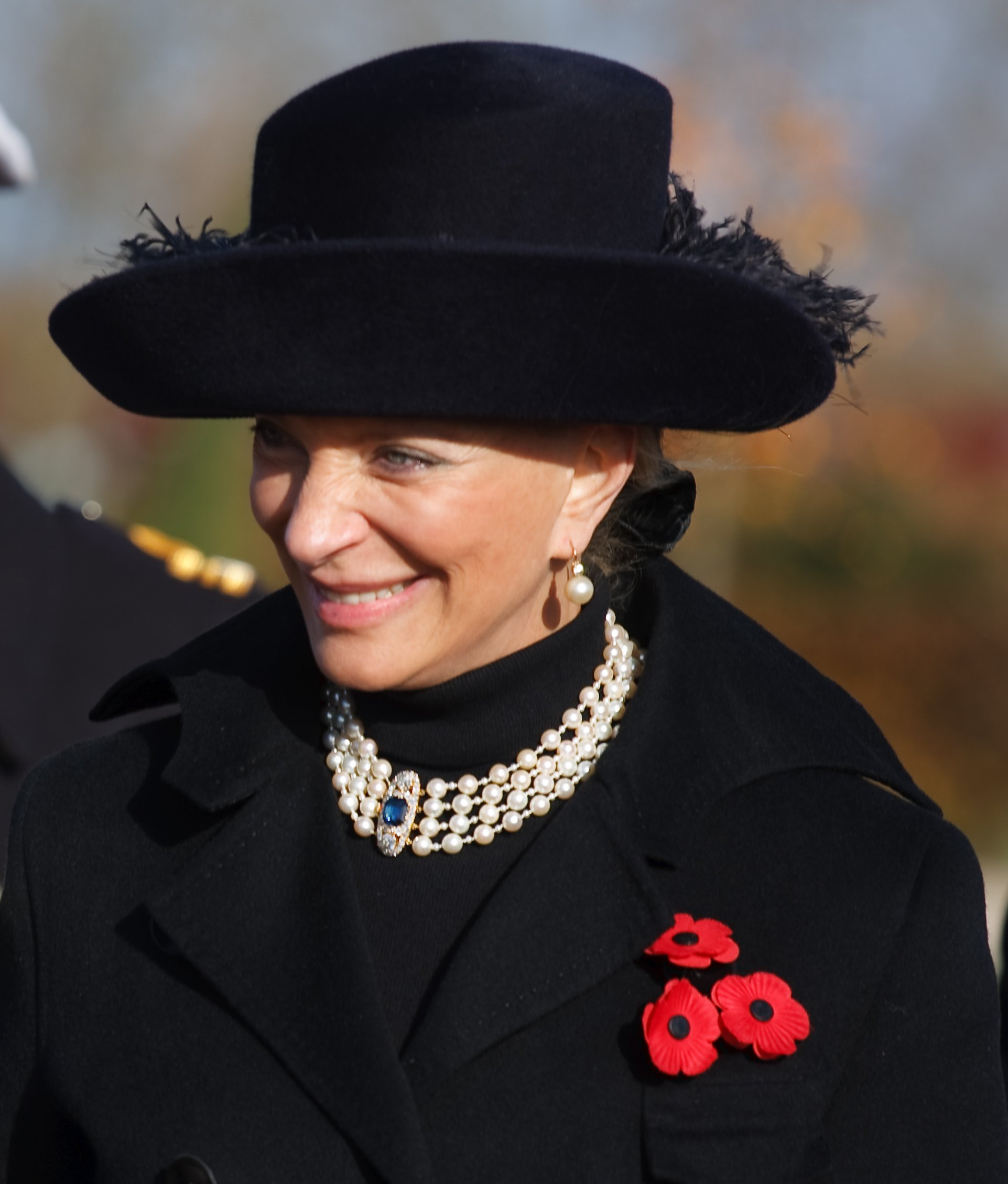 Taken in Croxall, England Taken with a Canon EOS 40D. Taken on November 11, 2008